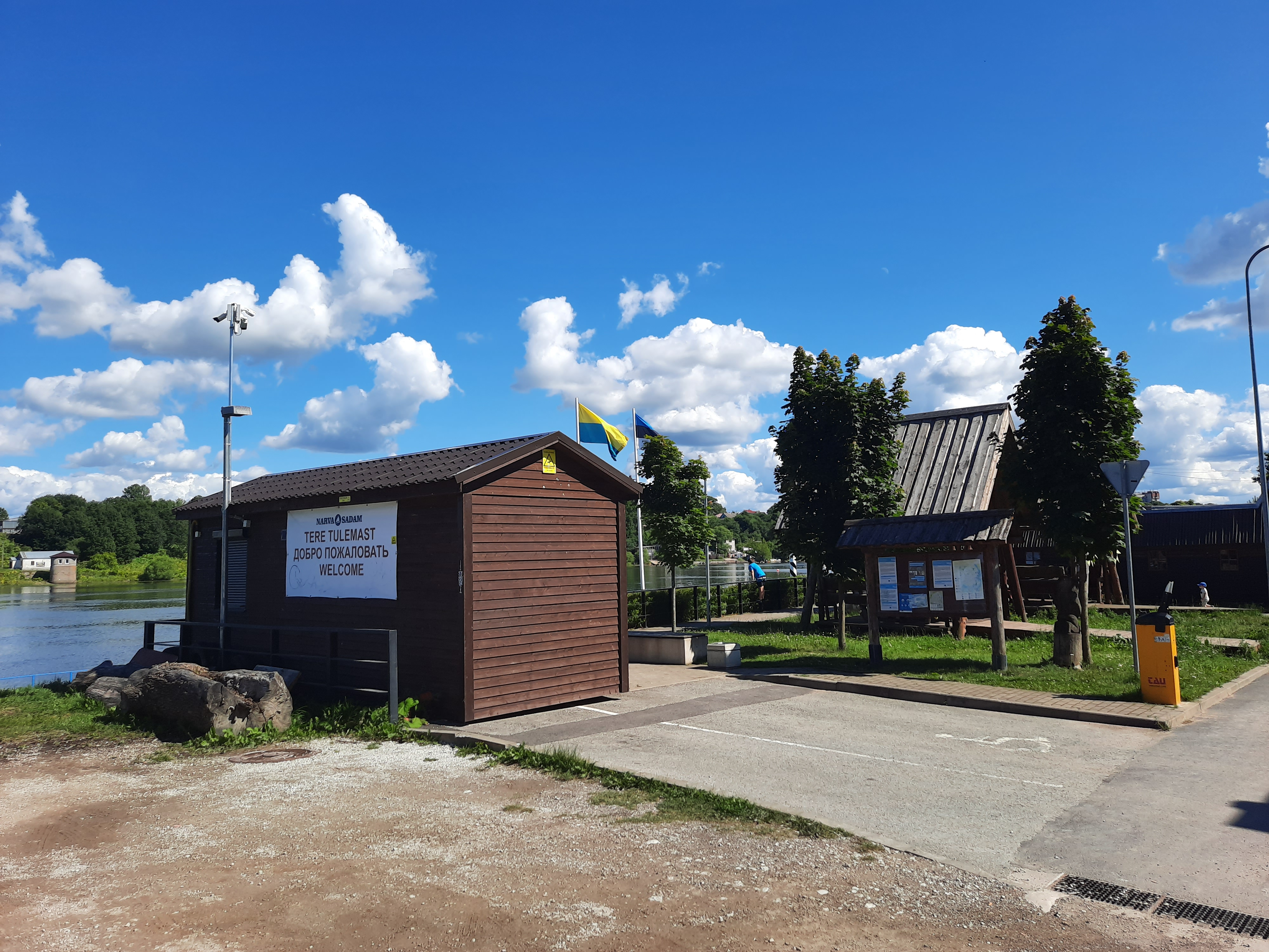 Narva Harbour